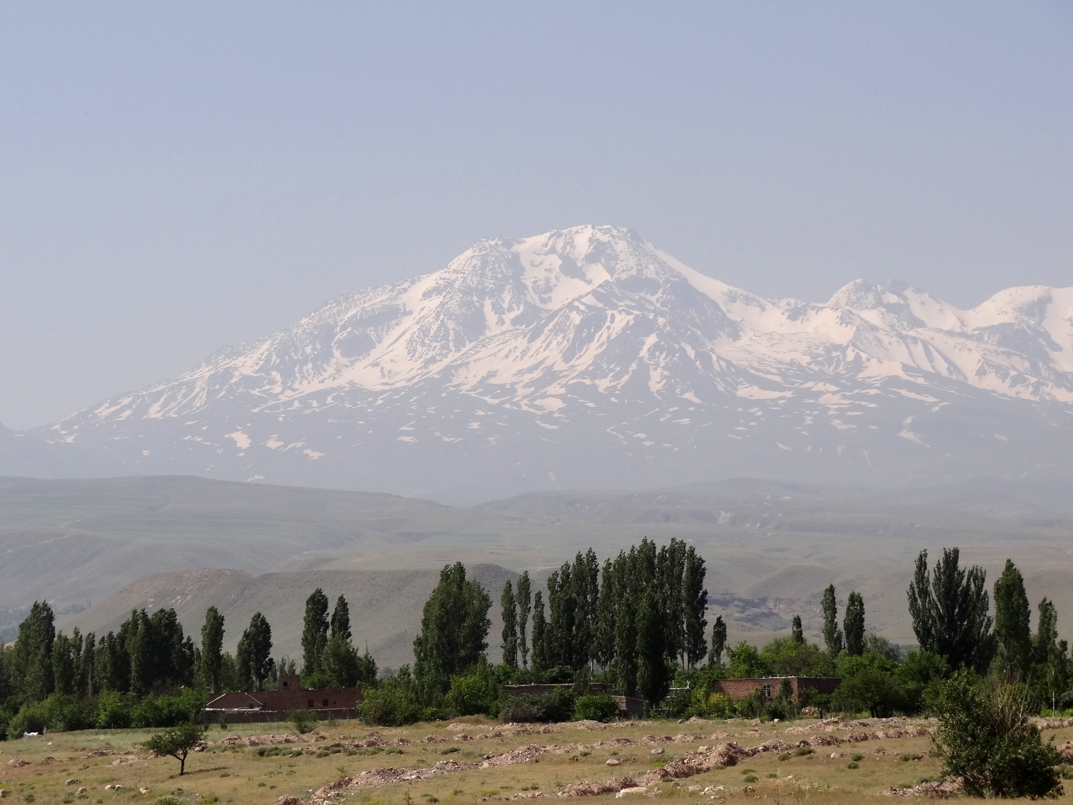 Mt. Sabalan (4811 Metres) Viewed from Highway near Ardabil, Iran